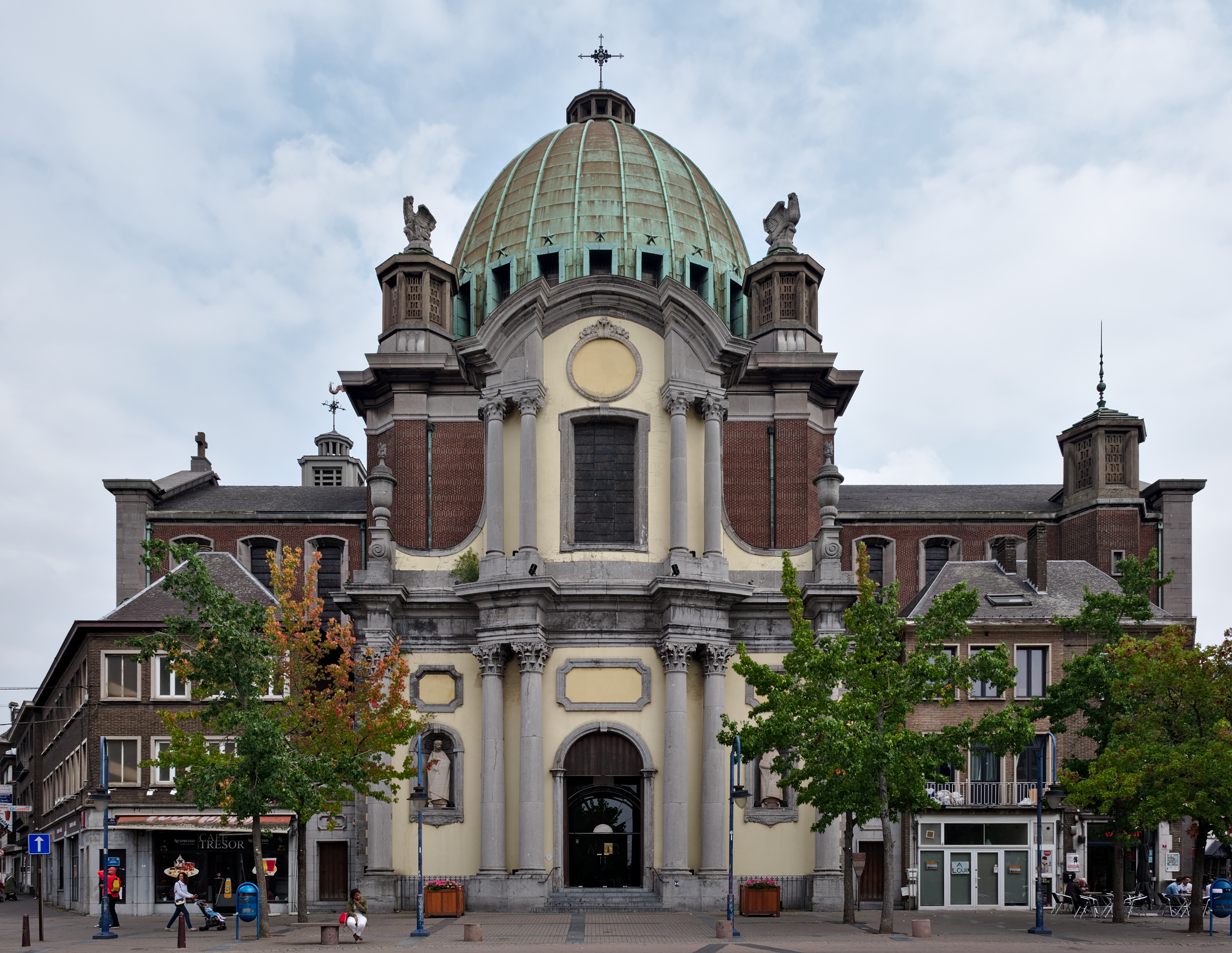 Saint-Christophe church in Charleroi, Belgium This photo of immovable heritage has been taken in the Walloon Region